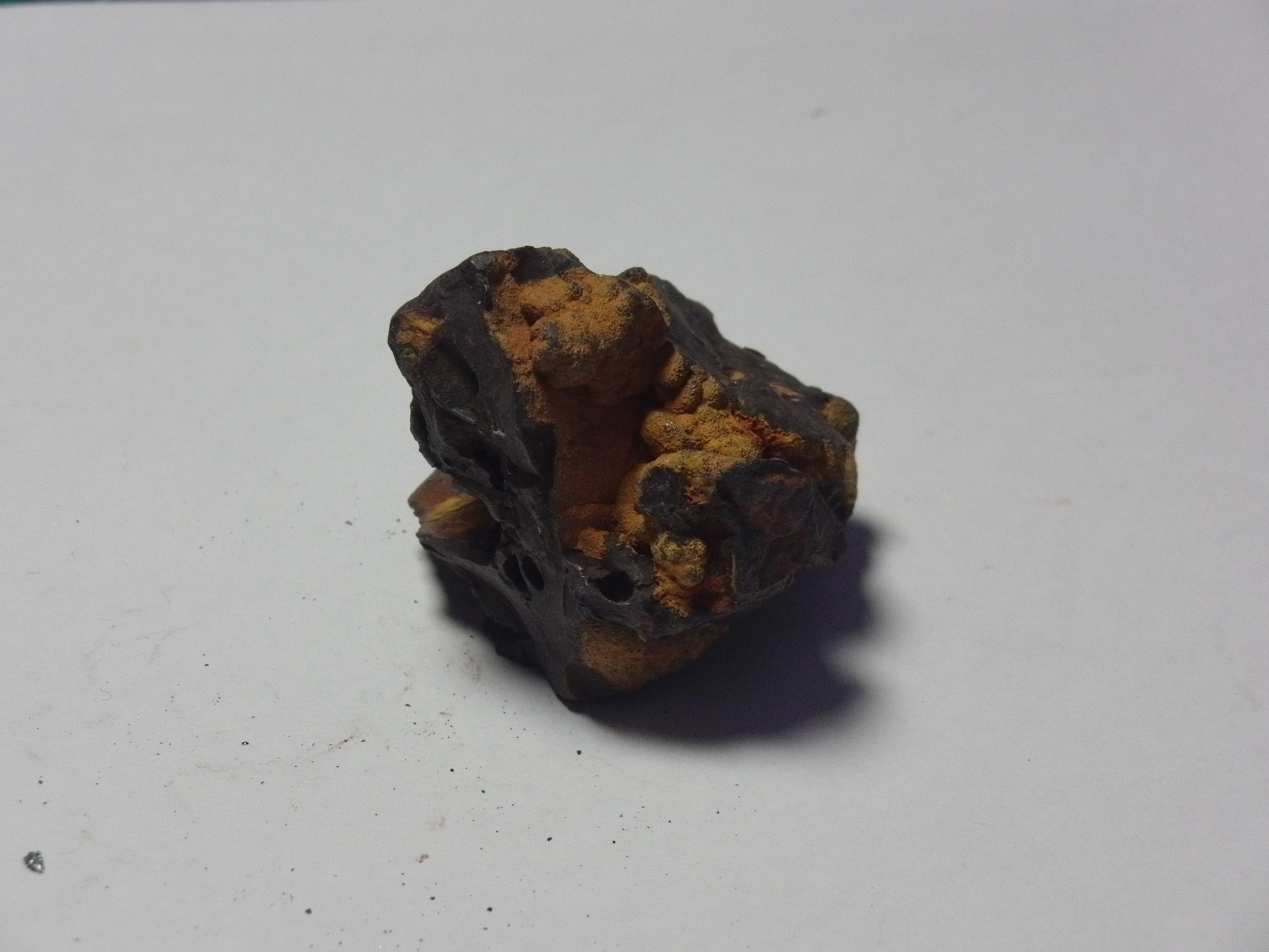 Limonite sample